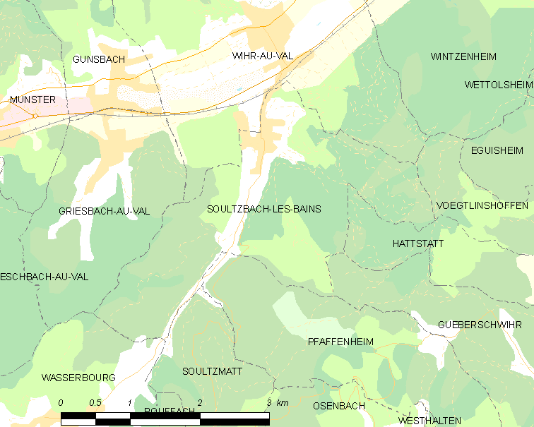 Map of French municipality